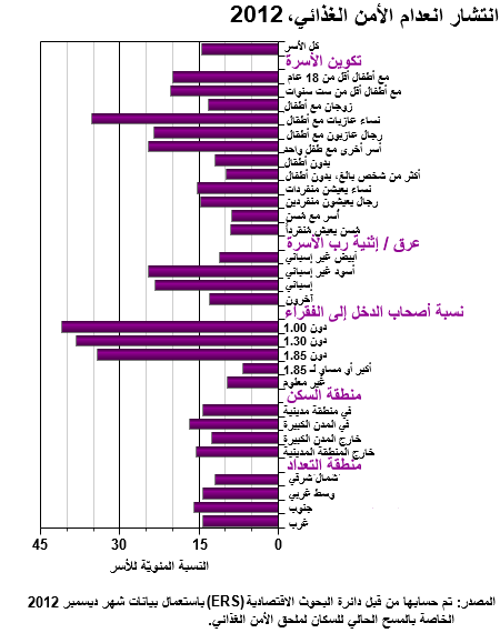 Prevalence of Food Insecurity in the US in 2012.